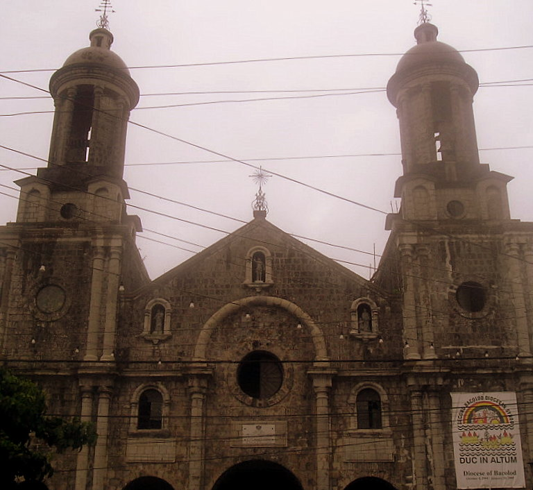 Bacalod - San Sebastian Cathedral Cfr.